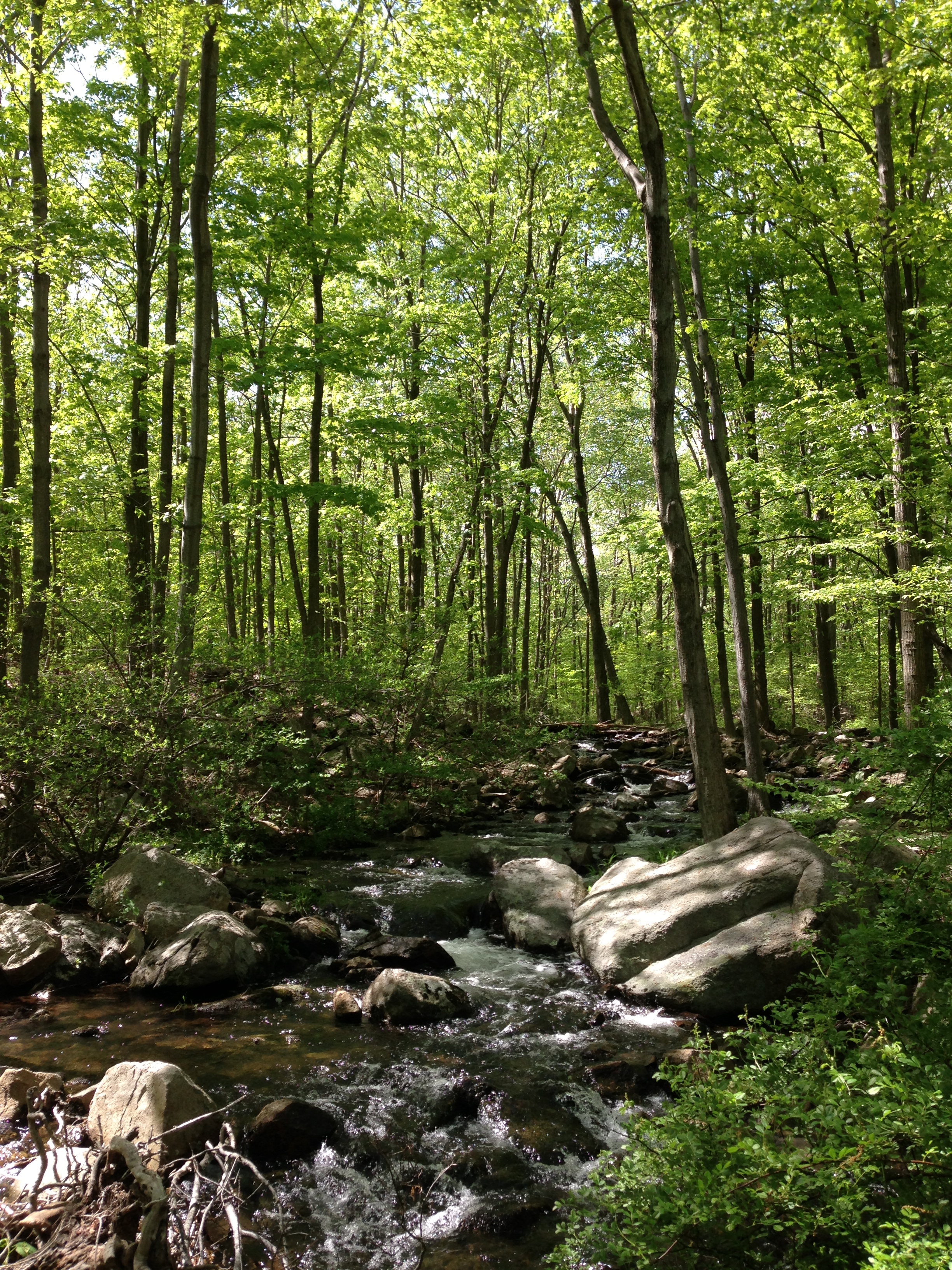 Stream along the MacEvoy Trail in Ramapo Mountain State Forest, New Jersey